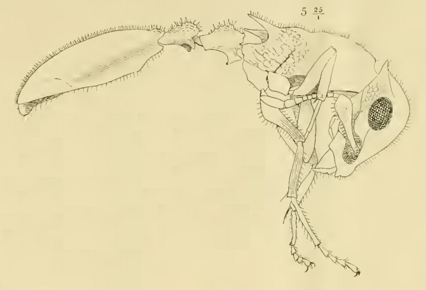 Illustrated profile view of the Cataulacus silvestrii holotype worker.